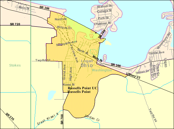 Map of Russells Point, a village in Logan County, Ohio, United States, with its boundaries at the time of the 2000 census.